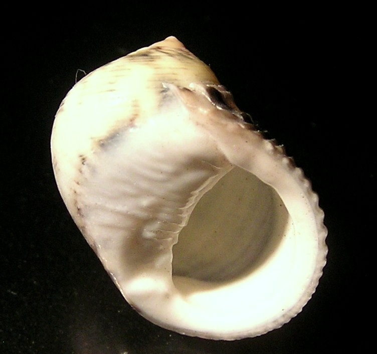 Nerita spengleriana Recluz, 1844, a nerite snail from the family Neritidae; Indonesia